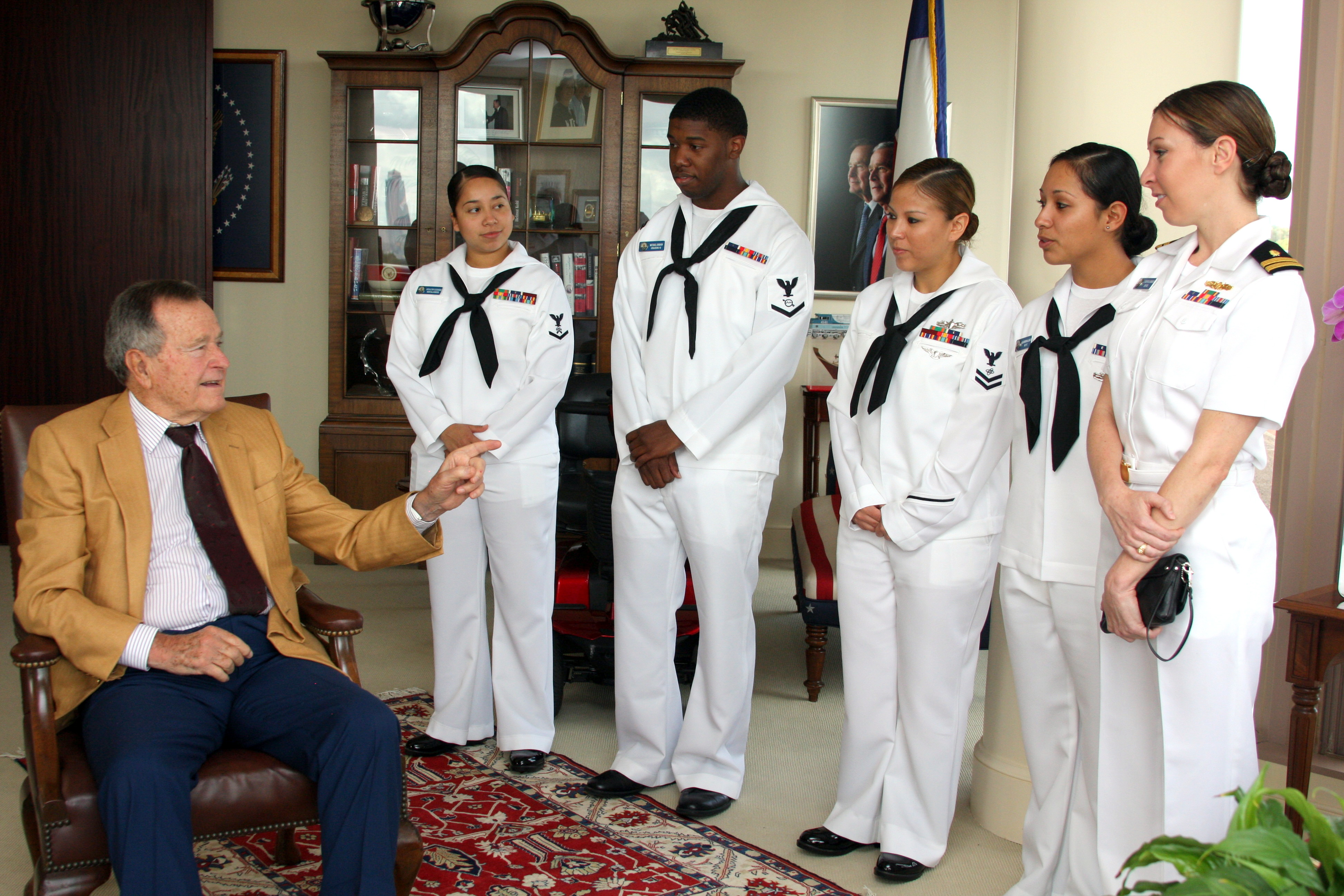 HOUSTON, Texas (Oct. 22, 2012) Sailors assigned to the aircraft carrier USS George H.W. Bush (CVN 77) meet their ship’s namesake during an office visit with former President George H.W. Bush during Houston Navy Week 2012. Houston Navy Week is one of 15 Navy Weeks planned across America this year. Navy Weeks are intended to show Americans the investment they have made in their Navy and increase awareness in cities that do not have a significant Navy presence. The U.S. Navy has a 237-year heritage of defending freedom and projecting and protecting U.S. interests around the globe. Join the conversation on social media using #warfighting. (U.S. Navy photo by Chief Mass Communication Specialist Steve Carlson/Released) 121022-N-NT881-005 Join the conversation navylive.dodlive.mil